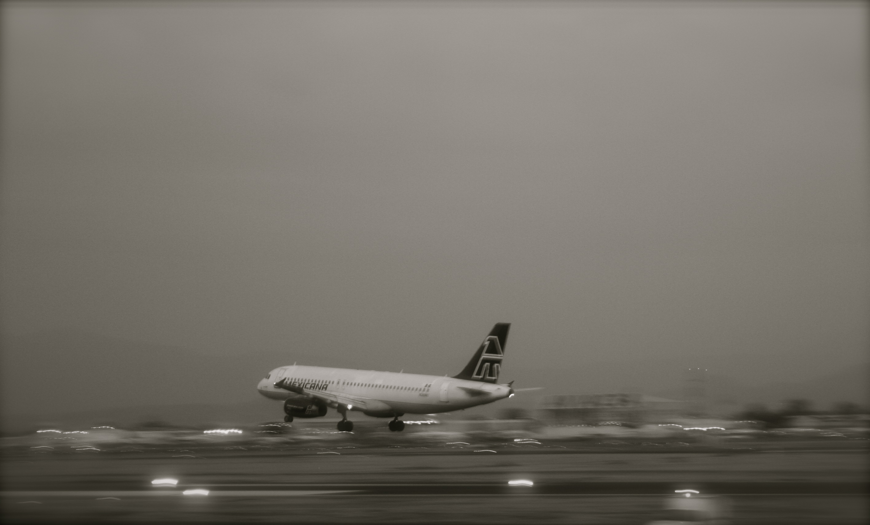 Airbus 320 Landing on 05 Left in Mexico City (MEX)